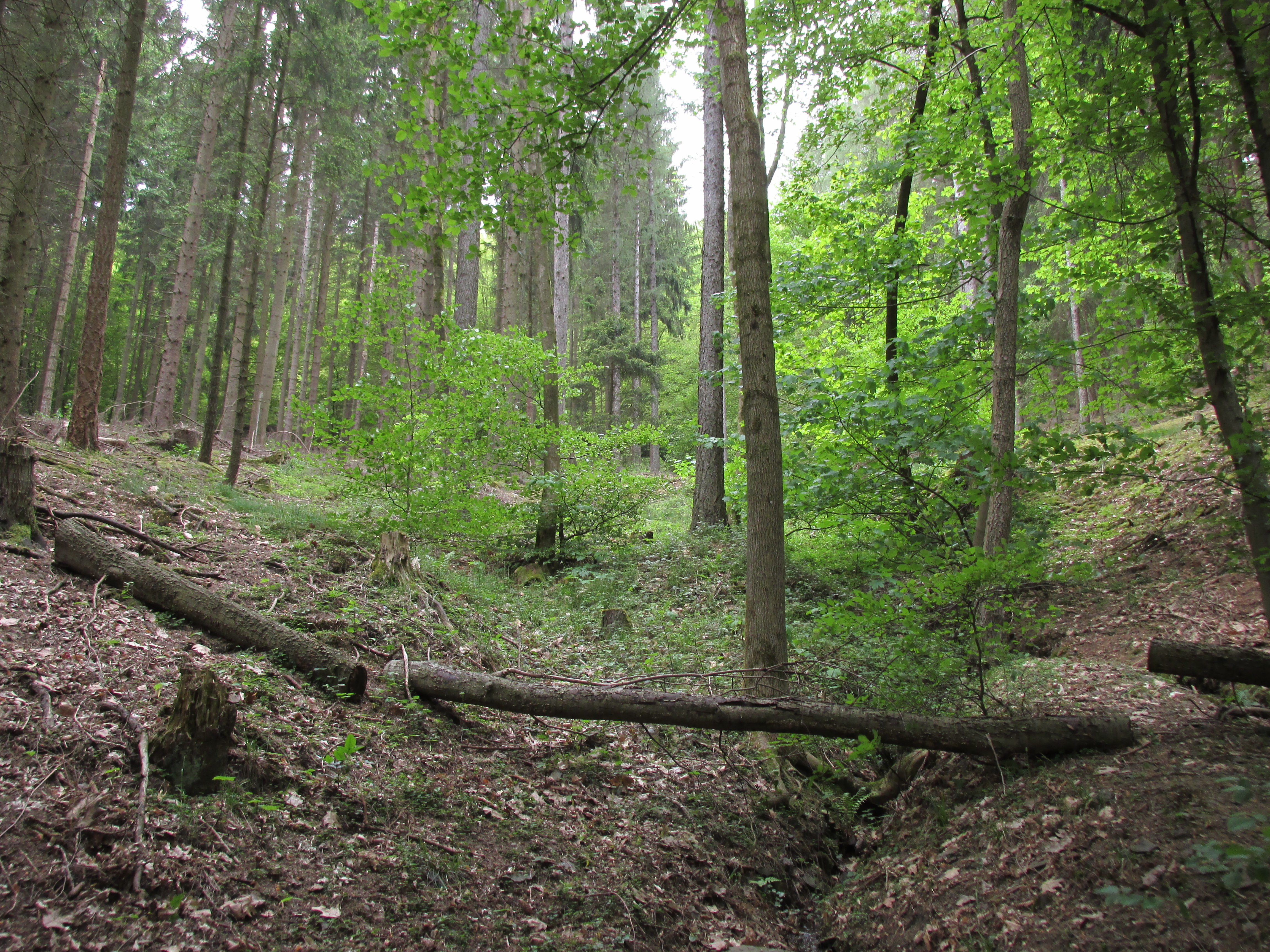 Nature reserve OE-055 Bilstein/Rosenberg, Lennestadt, Germany check usage